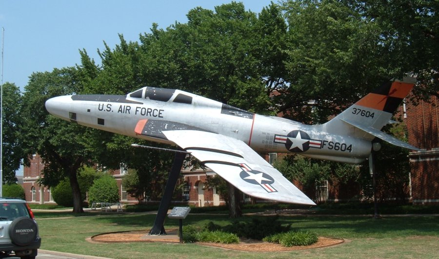 An RF-84F Thunderflash, the reconnaissance version of the swept-wing F-84F, on display outside of the ROTC building on the Oklahoma State University Campus in Stillwater, OK.